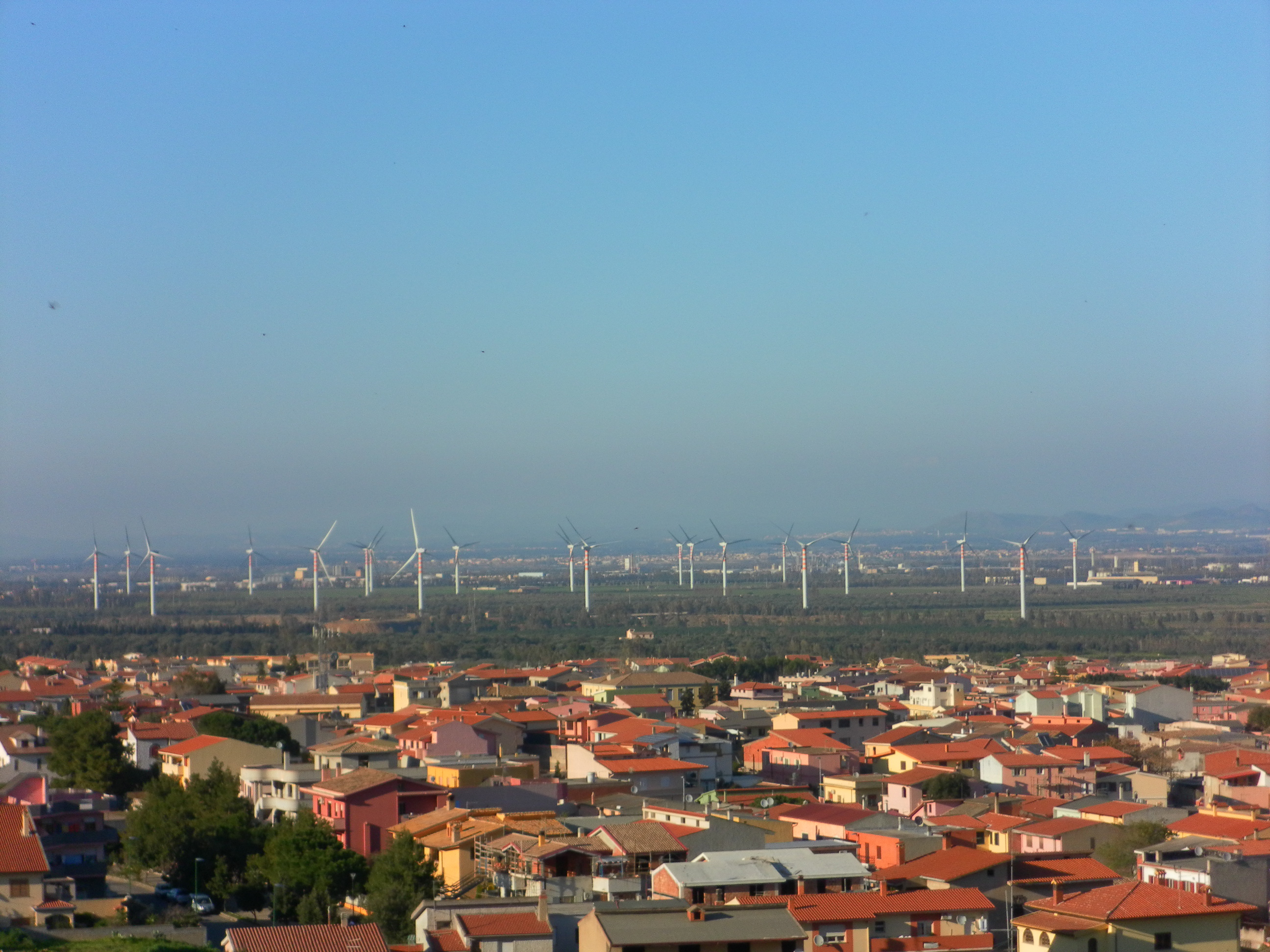 Capoterra e sullo sfondo il parco eolico di Macchiareddu